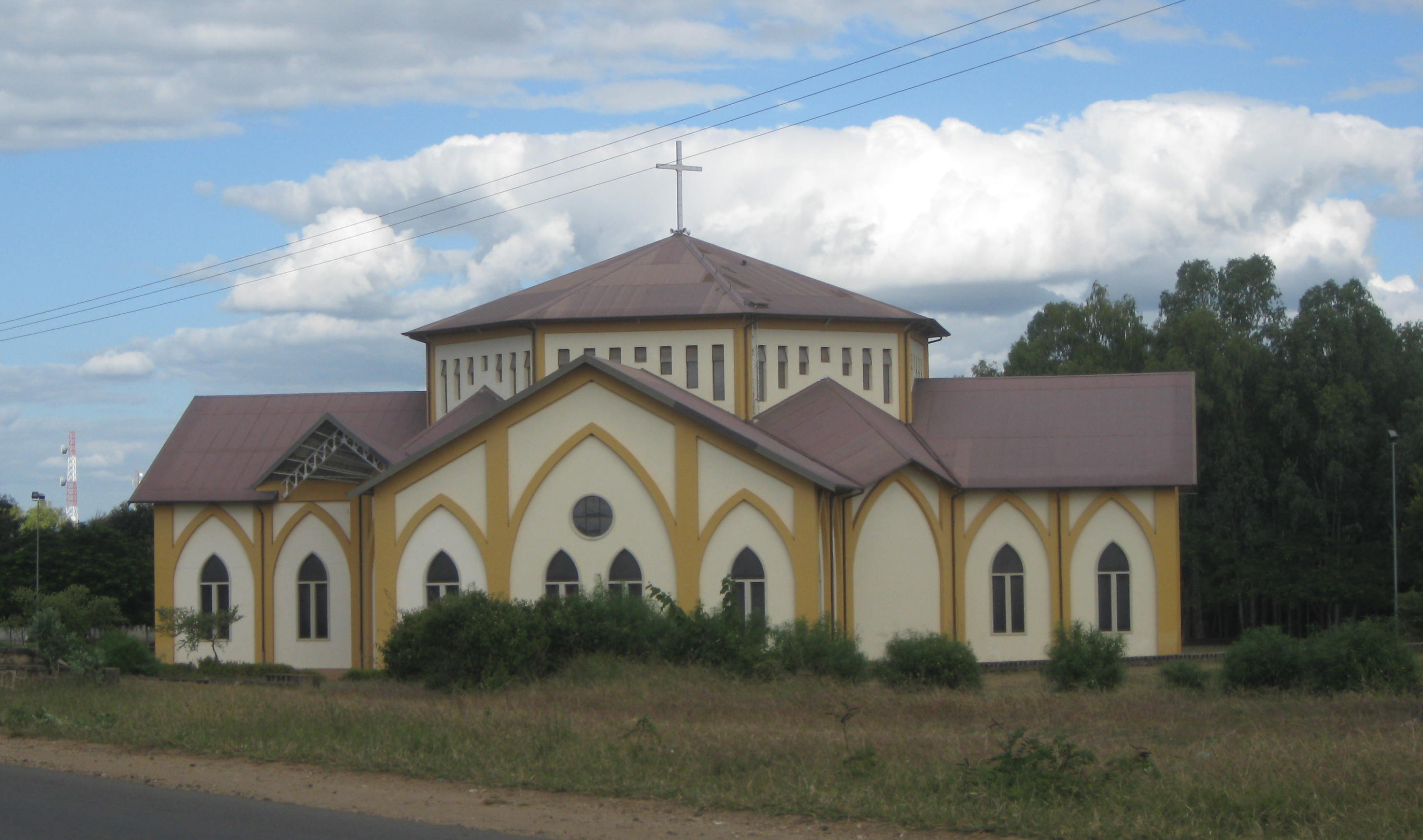 St. Louis Montfort Parish Balaka, Malawi